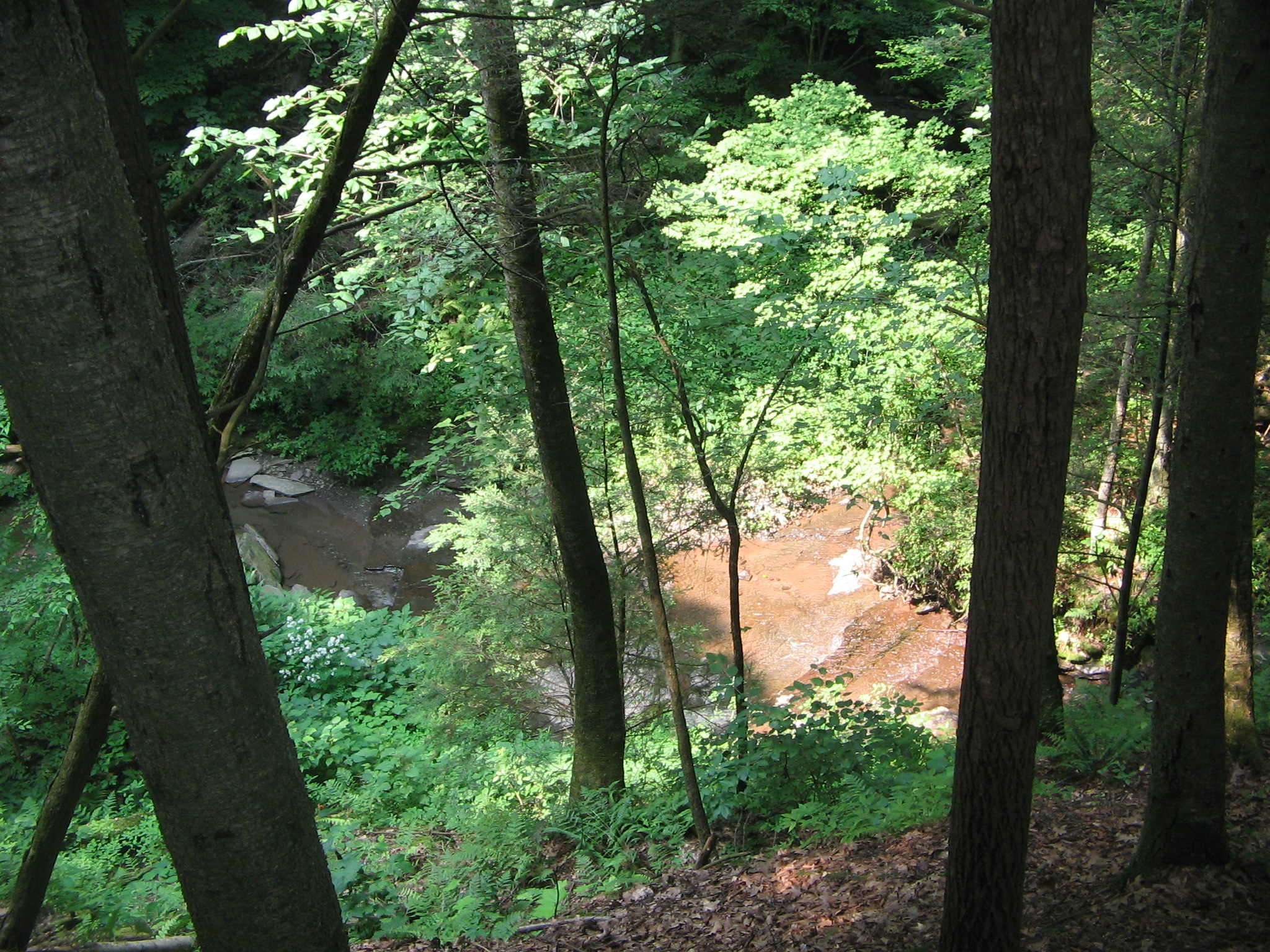 Little Four Mile Run from the Turkey Path in Leonard Harrison State Park in Shippen Township, Tioga County, Pennsylvania, United States